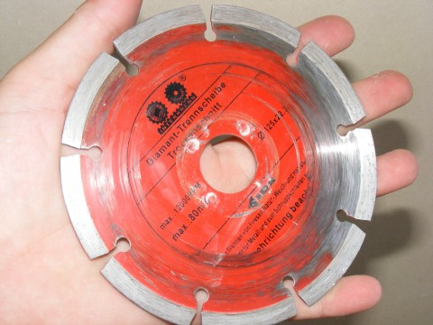 Free and Public Domain Photos – Diamond Blade, Used More photos and details about possible copyright or licensing restrictions here: Full Size Up to 3072 x 2304 pixels Information Regarding Copyright